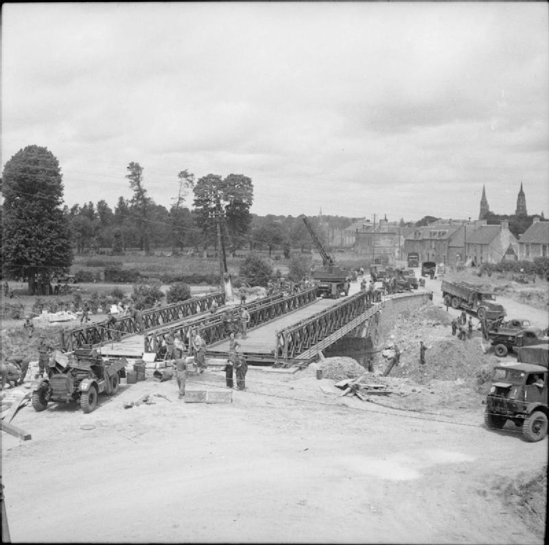 The British Army in Normandy 1944 A Bailey bridge being built by 72nd Field Company, Royal Engineers at Saint-Loup-Hors, near Bayeux, 4 July 1944.